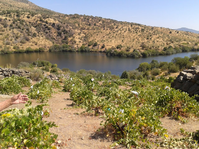 Vineyard planted to Albillo, near the village of El Tiemblo (Avila, Spain)